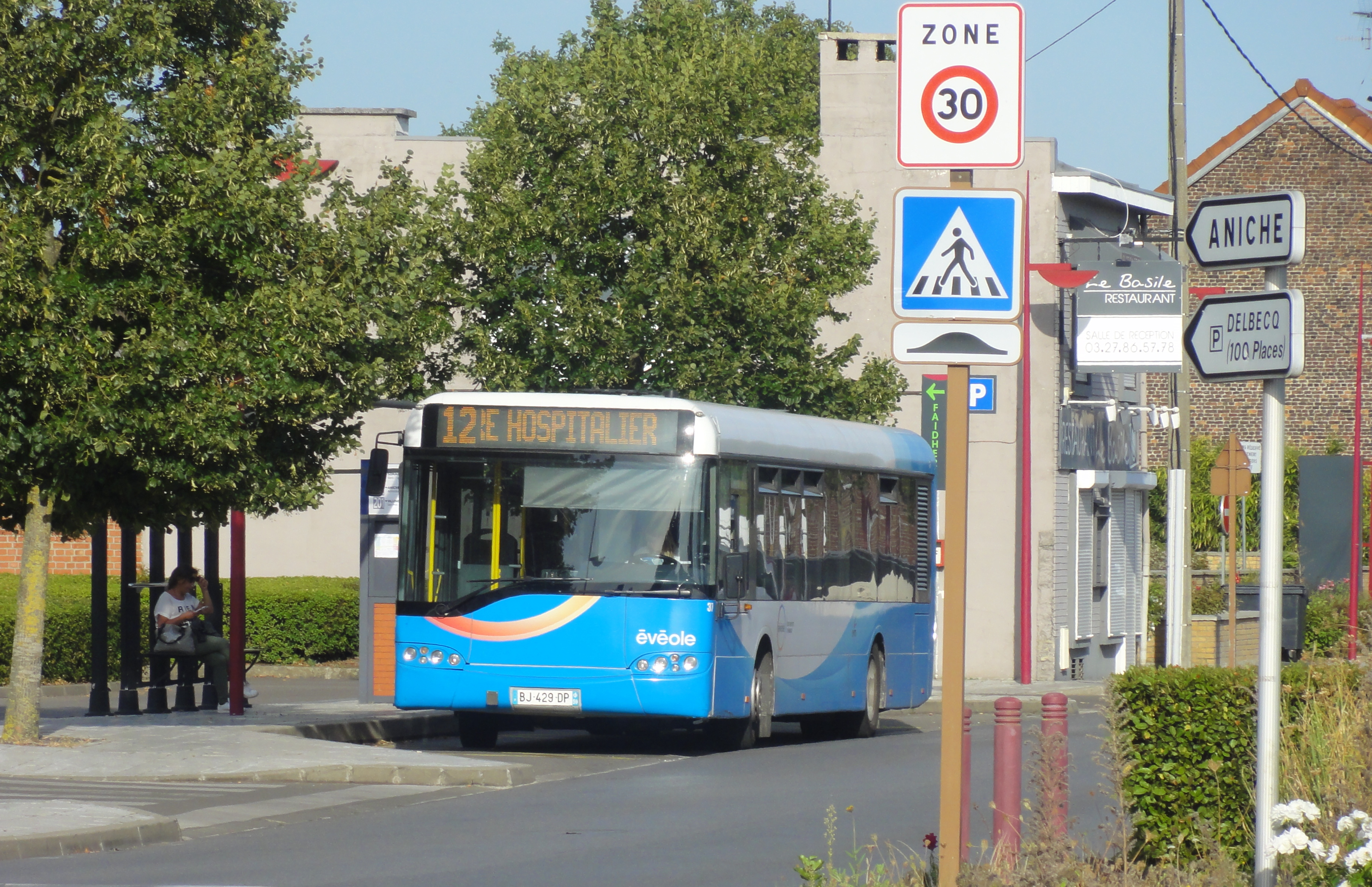 Depicted place: Somain